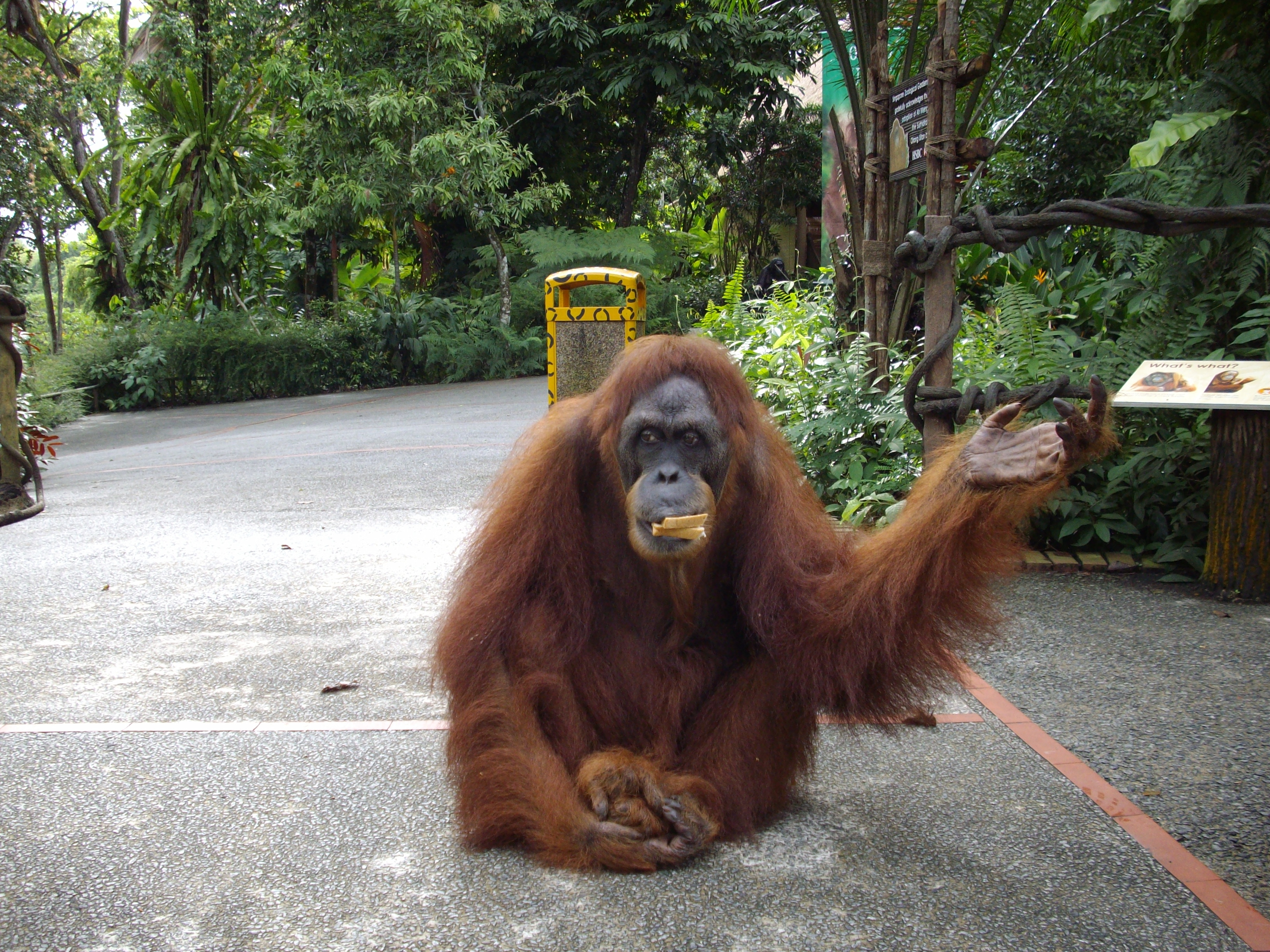 Ah Meng the female Sumatran Orangutan, Singapore Zoo's most famous animal celebrity on her regular morning walk in the Zoo. Visiting the Zoo at opening hours one morning, I was able to interact with Ah Meng and her handler Mr. Alagappaswamy s/o Chelliah alias Sam, who allowed me to photograph her, a unforgettable occasion. Sadly, she expired a few months later on 8 February 2008, having lived to the ripe old age of 48 years. Many famous people have been photographed with her on their visits to the Singapore Zoo.